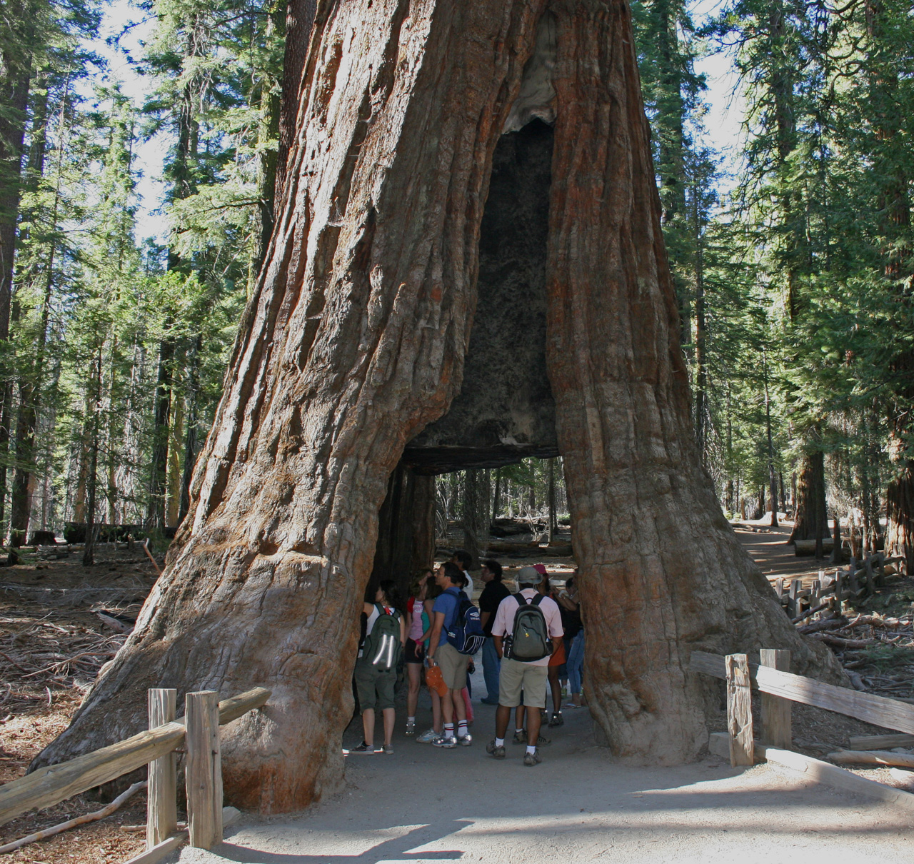 The California Tunnel tree, a giant sequoia in Mariposa Grove in Yosemite National Park, California, USA